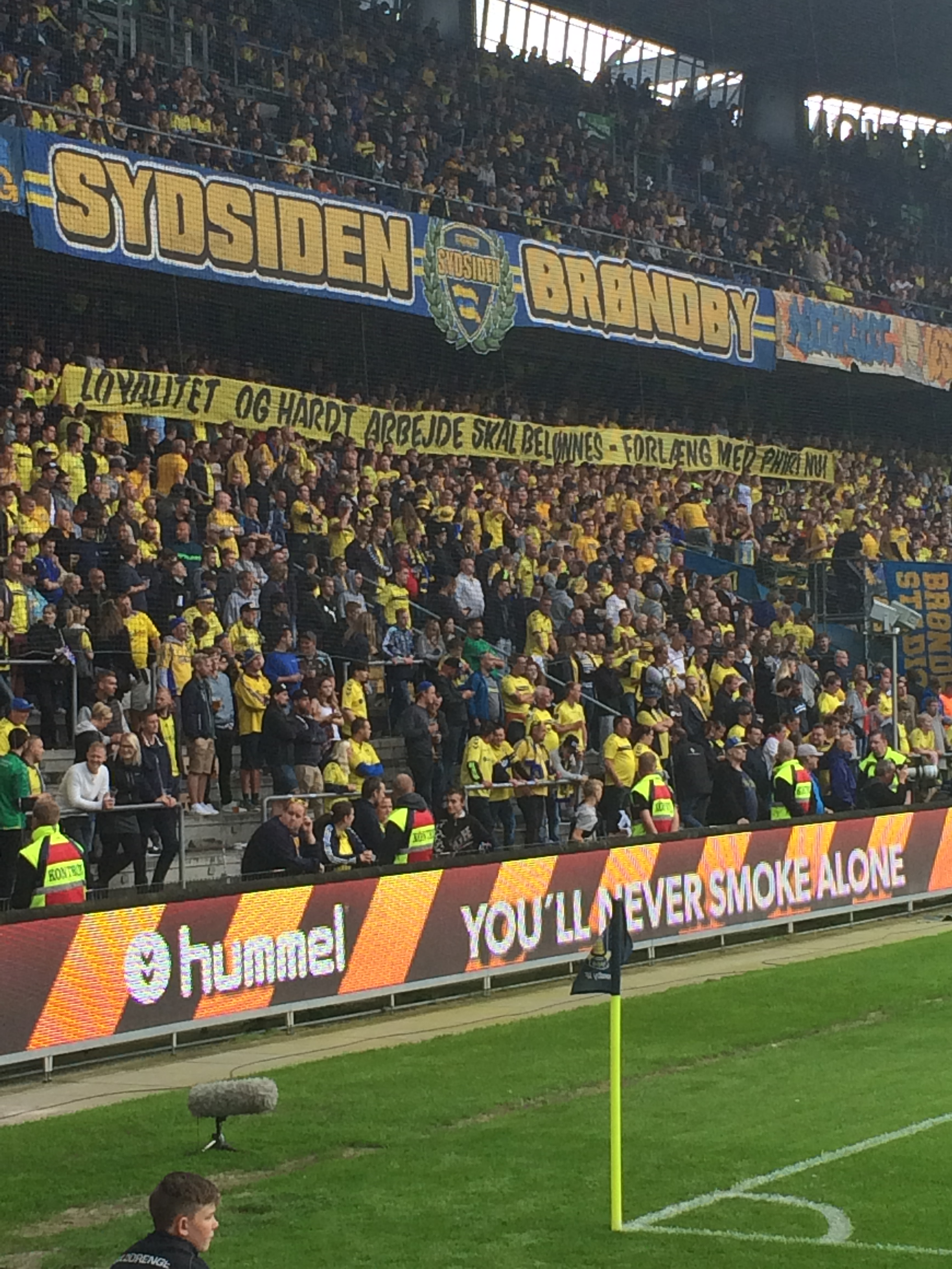 Sydsiden at Brøndby Stadium